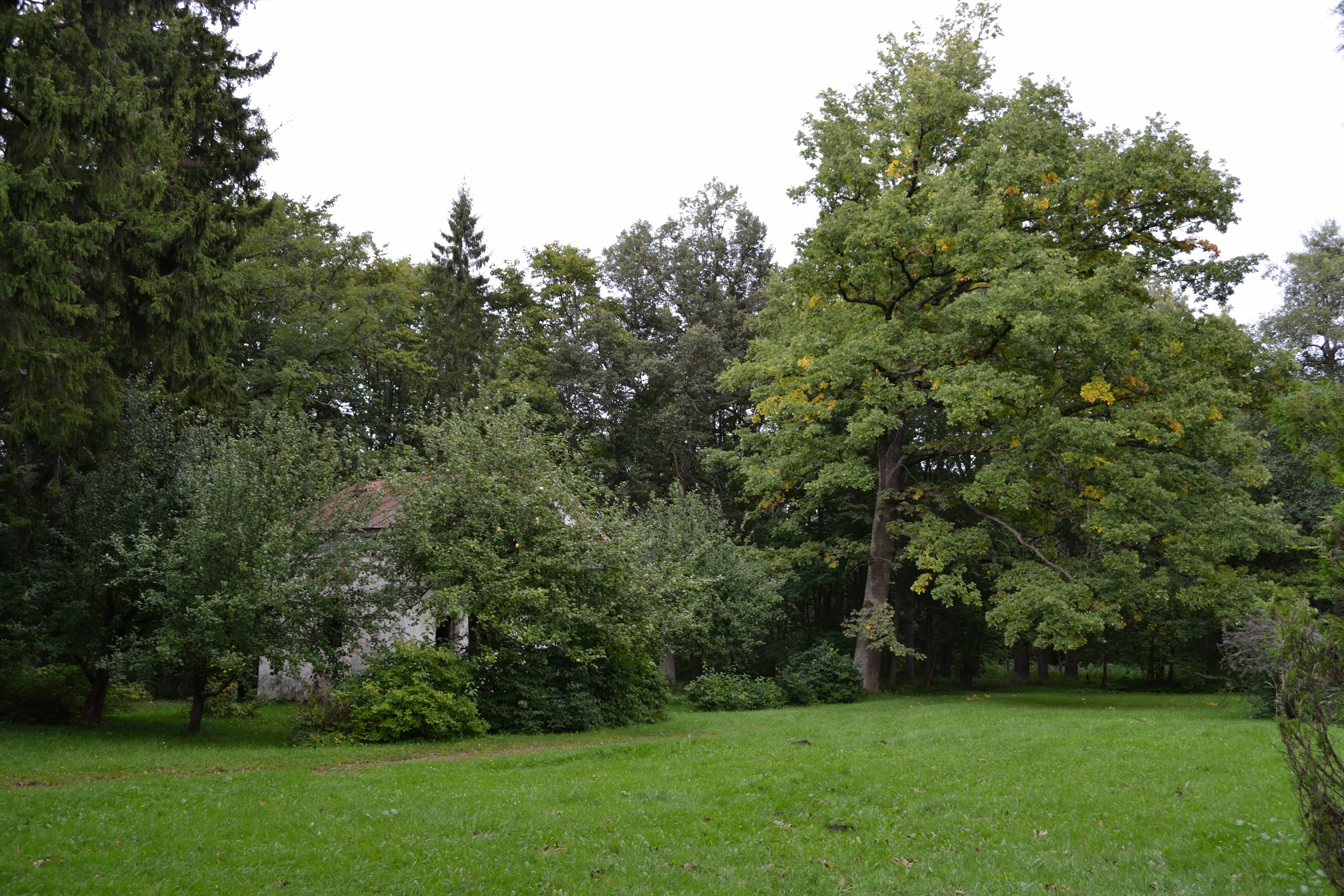 Saue manor park, 18.-20. century